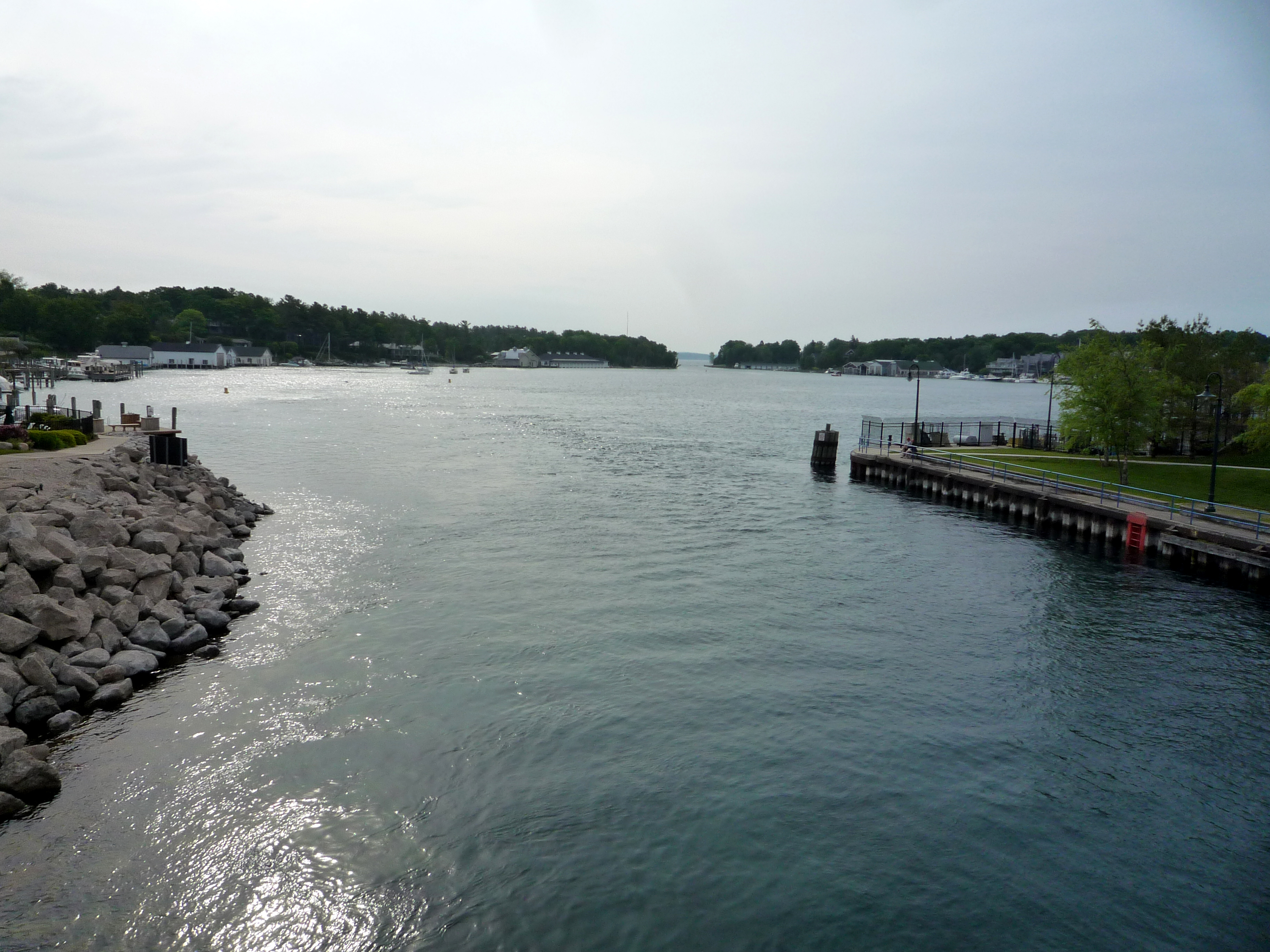 Looking up the Pine River into Round Lake from the main bridge in downtown Charlevoix, Michigan, USA. The section of the Pine River to the larger Lake Charlevoix is on the horizon.